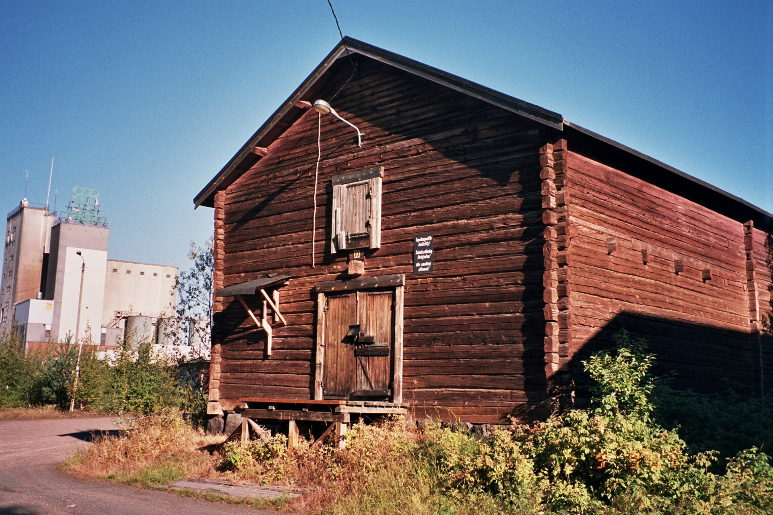 An old warehouse in the harbour of Toppila, Oulu, Finland. Partially seen on the left is a feed plant of Rehuraisio.